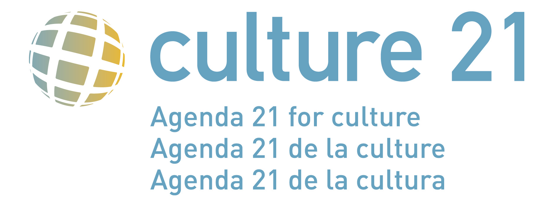 This is the official logo of Agenda 21 for culture Eso es el logotípo oficial de la Agenda 21 de la cultura Ceci est le logotype officiel de l'Agenda 21 de la culture